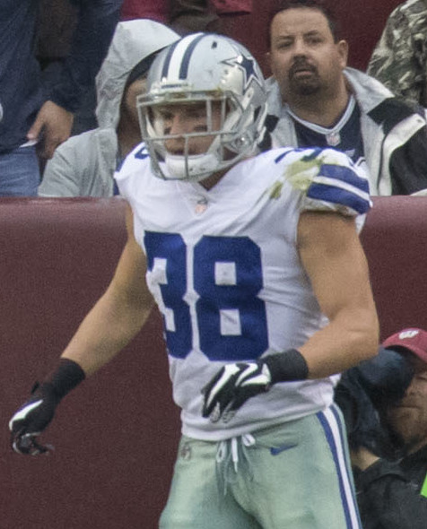 Cowboys at Redskins 10/29/17